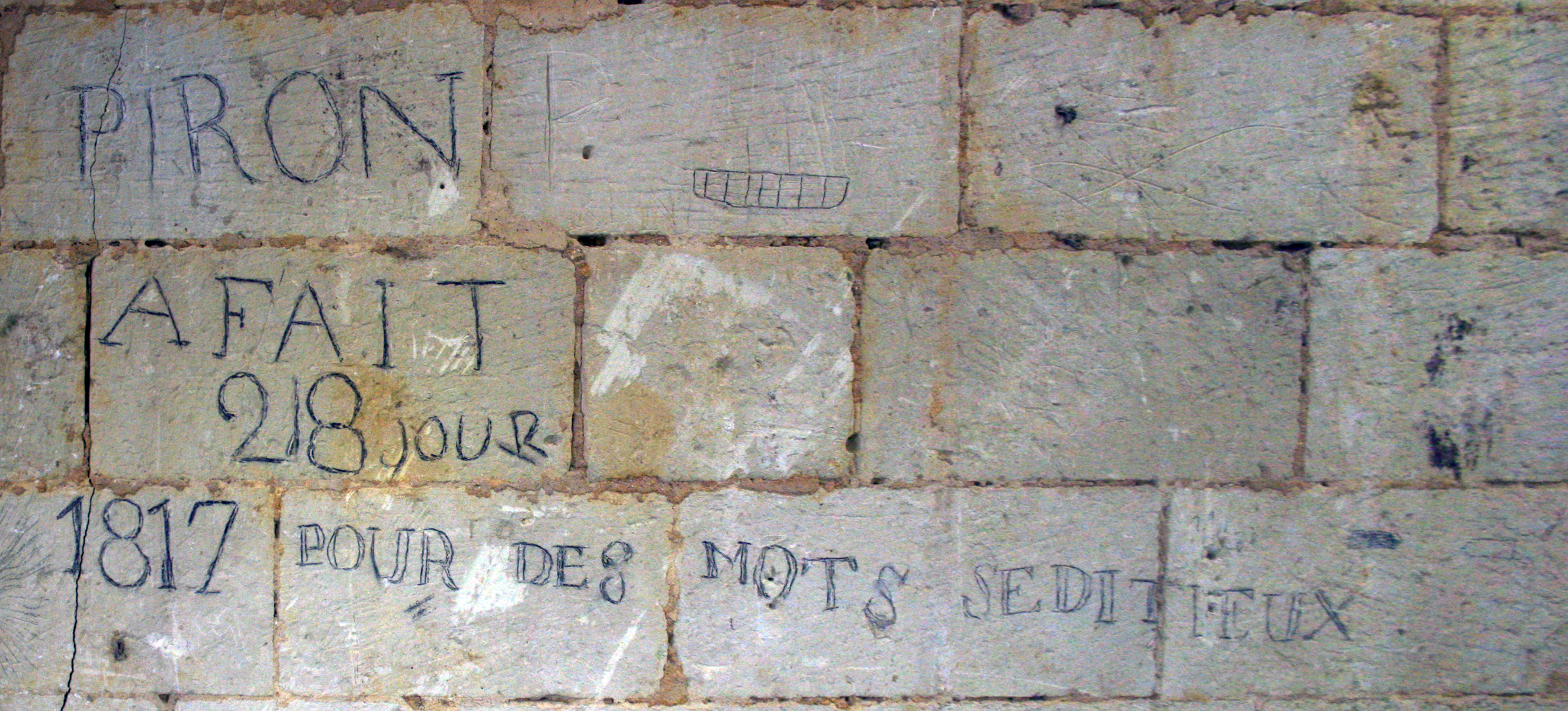 "1817. Piron did 218 day(s) for seditious words". Graffiti in the disciplinary cell in the former prison of the Fontevraud abbey.